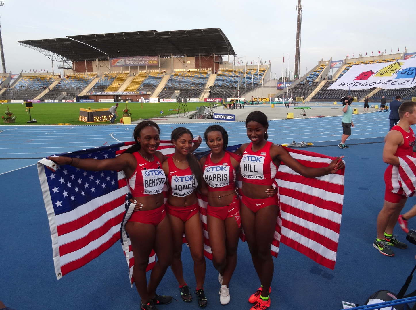 2016 IAAF World U20 Championships in Bydgoszcz, 4x100m relay women final